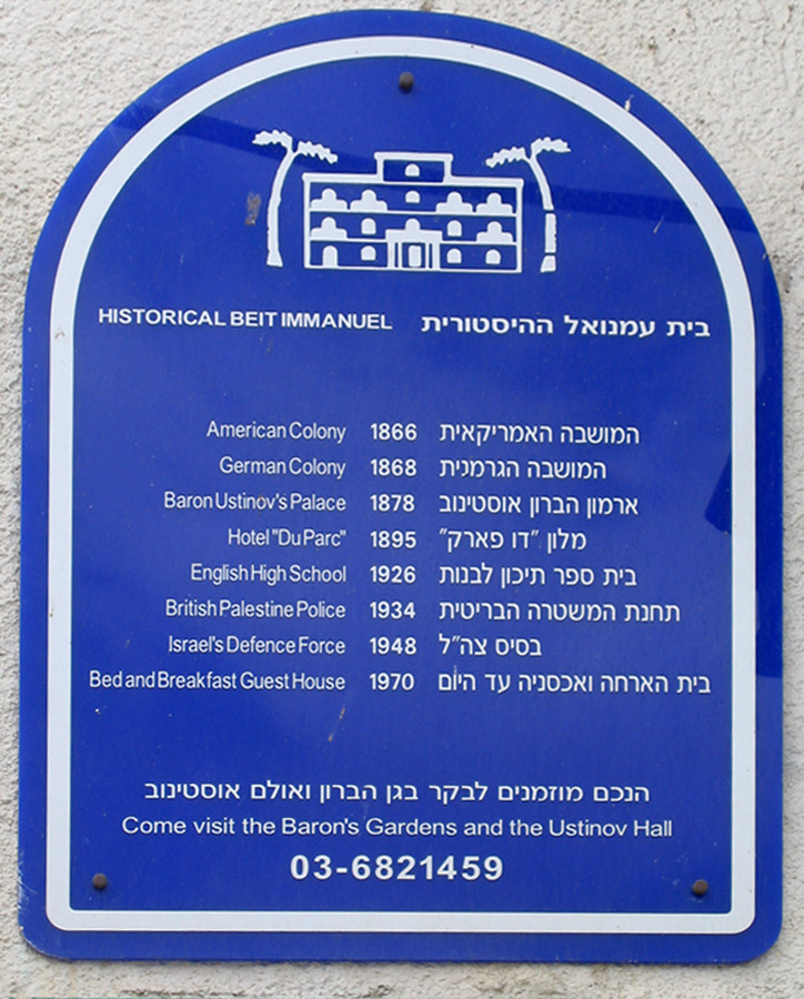 Sign on a house in the American-Templar clolony in Jaffa, Israel